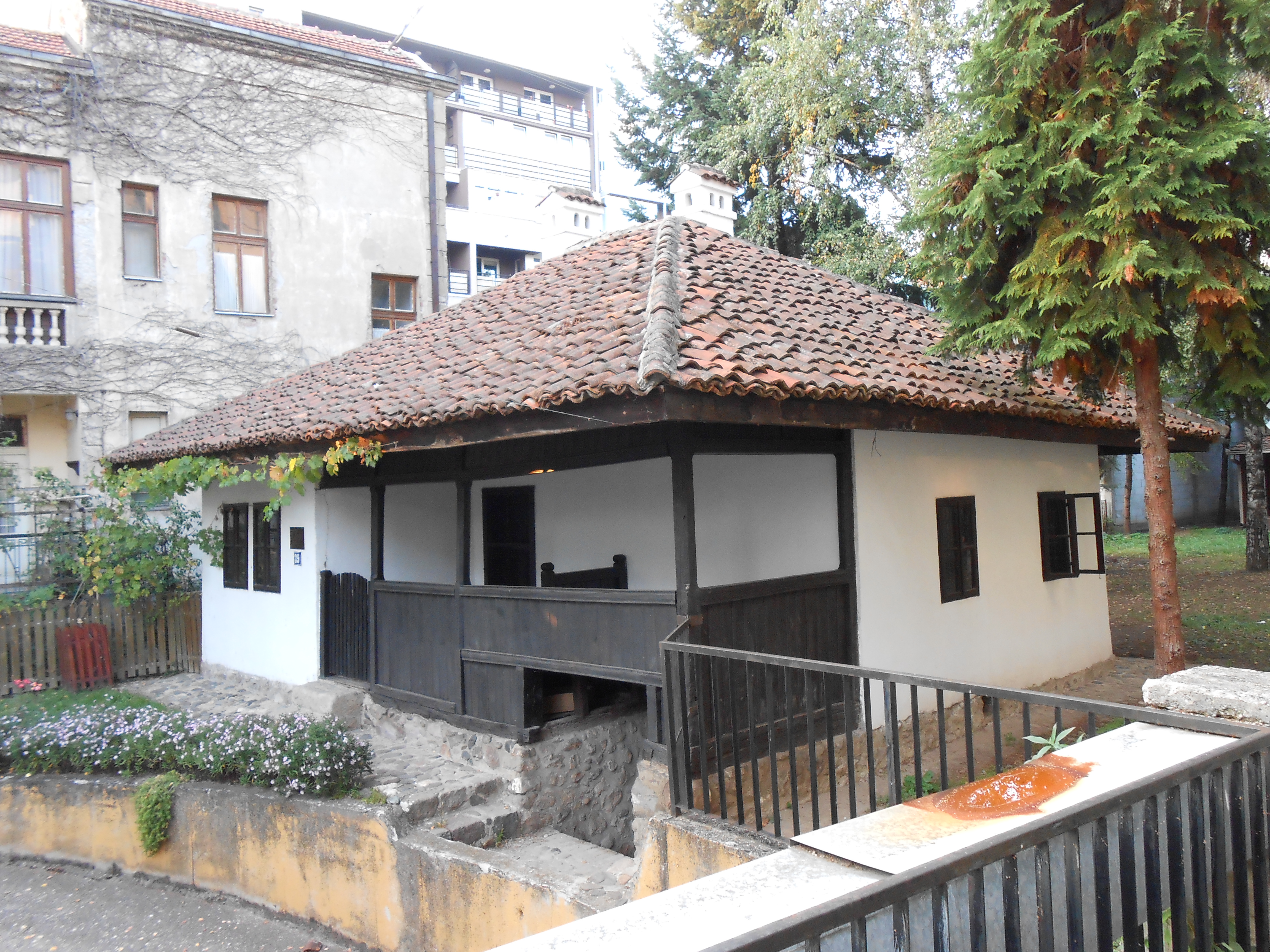 Adzic family house, one of oldest buildings in Kraljevo, Serbia. It is situated at Cara Dušana street.